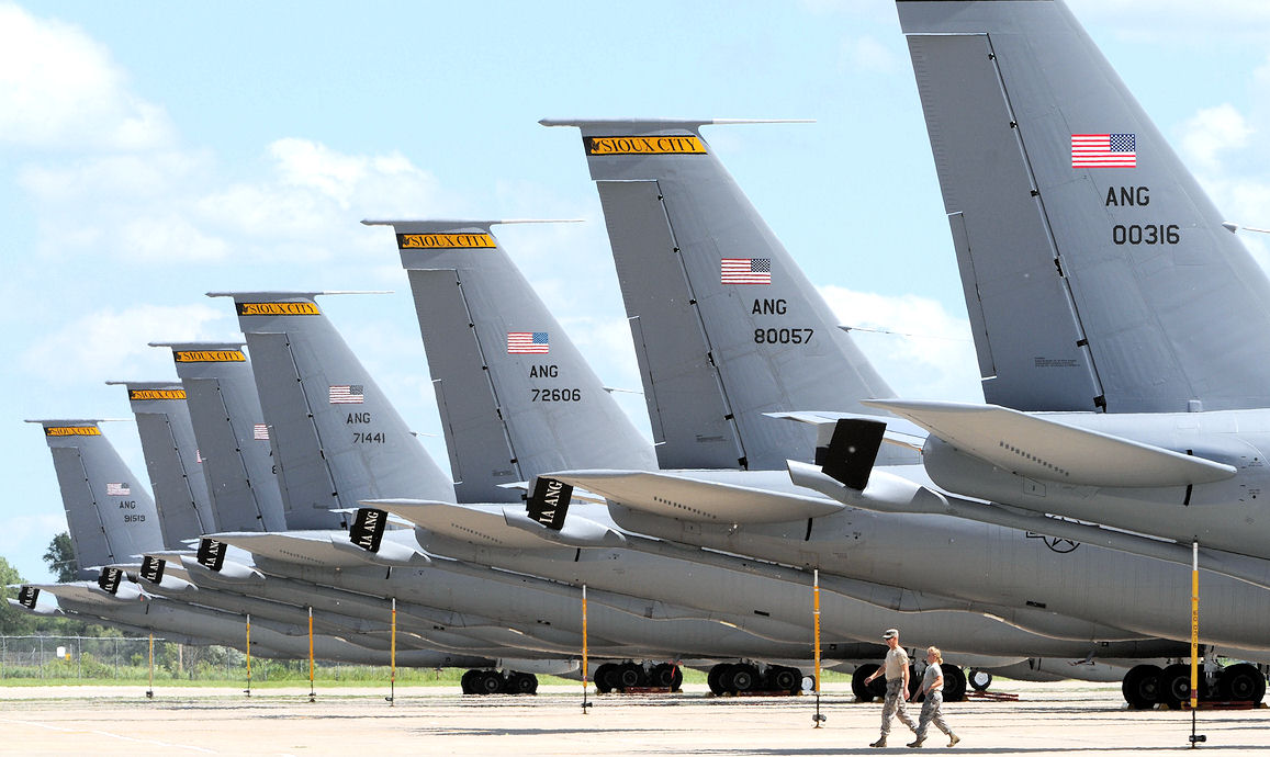 174th Air Refueling Squadron - KC-135